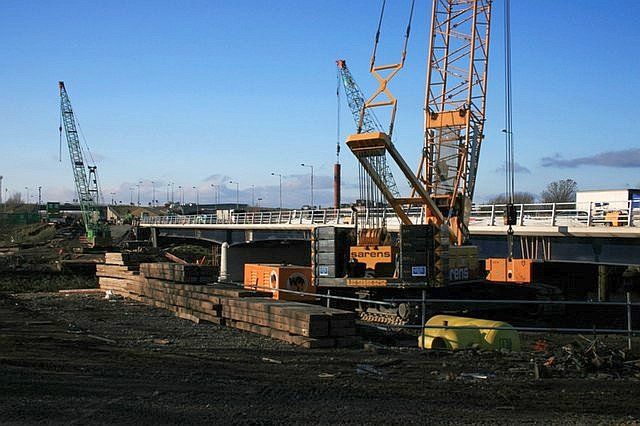 Sections of the new Surtees Bridge bridge weighing up to 344t are being lifted into place by a 1200t Gottwald AK680 crane, seen here on the right.